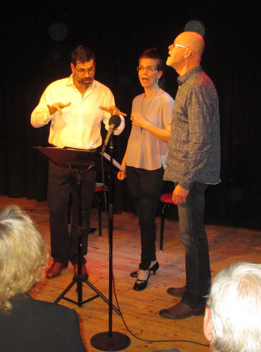 Jeremy Carpenter, Angela Kovács and Jan Modin perform for the Bernadotte Friendship ClubPlace: Pygméteatern, Vegatatan 17, Stockholm, Sweden